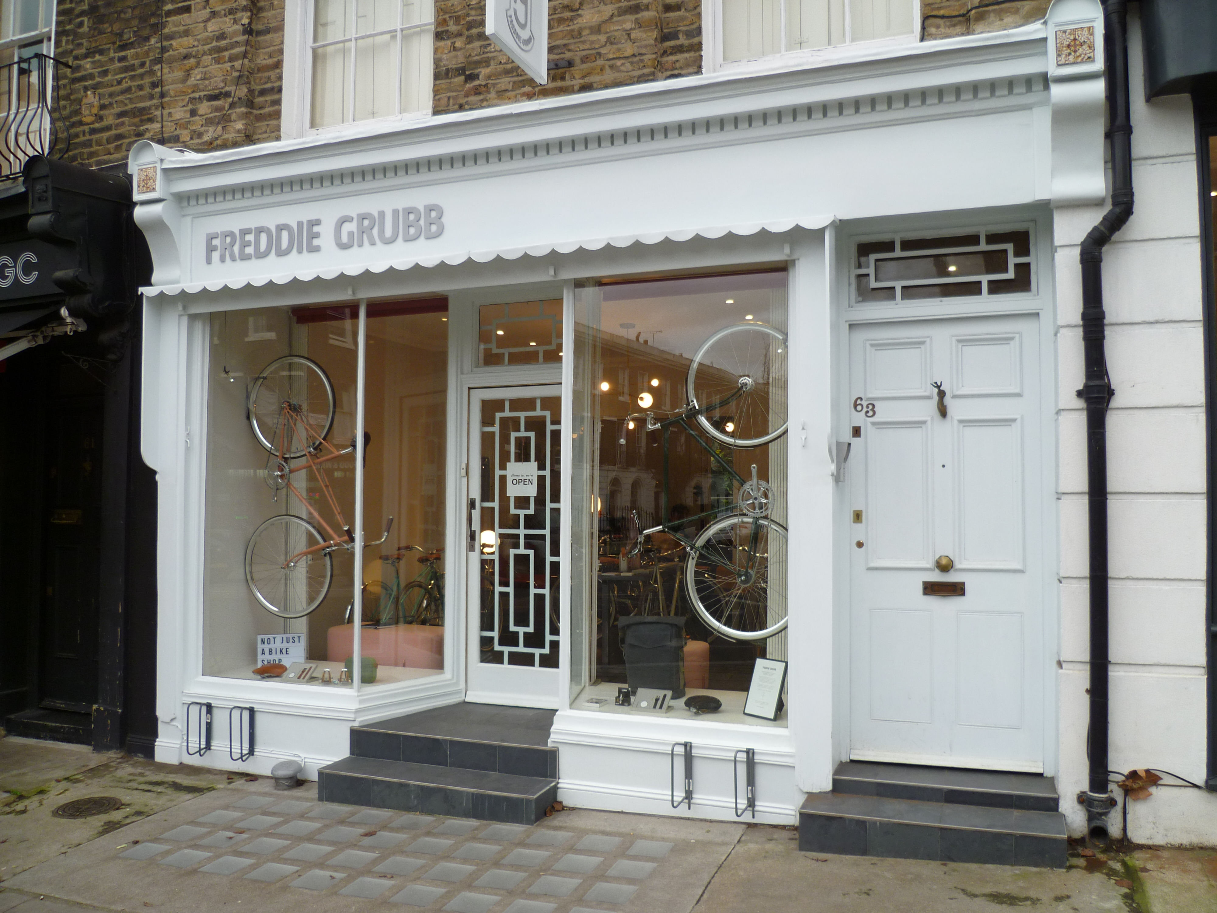 London